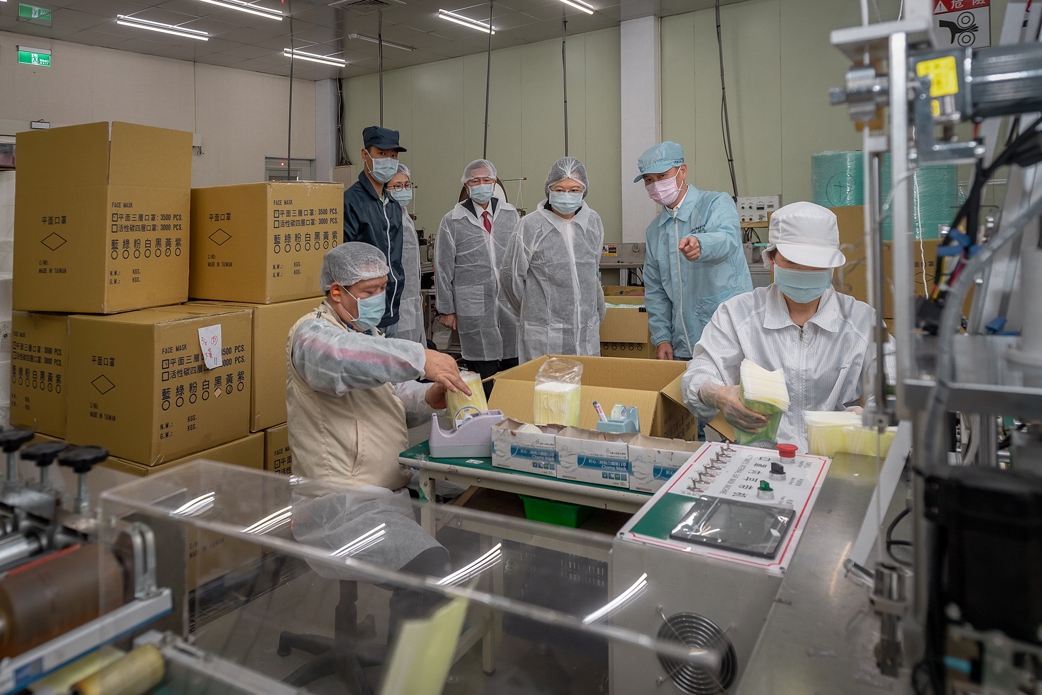 Official Photo by Makoto Lin / Office of the President